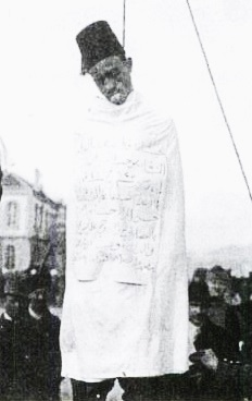 A rebel commander of the Great Syrian Revolt, Fakhri al-Kharrat, son Hasan al-Kharrat, hanged in front of onlookers by the French Mandatory authorities in Marjeh Square, Damascus